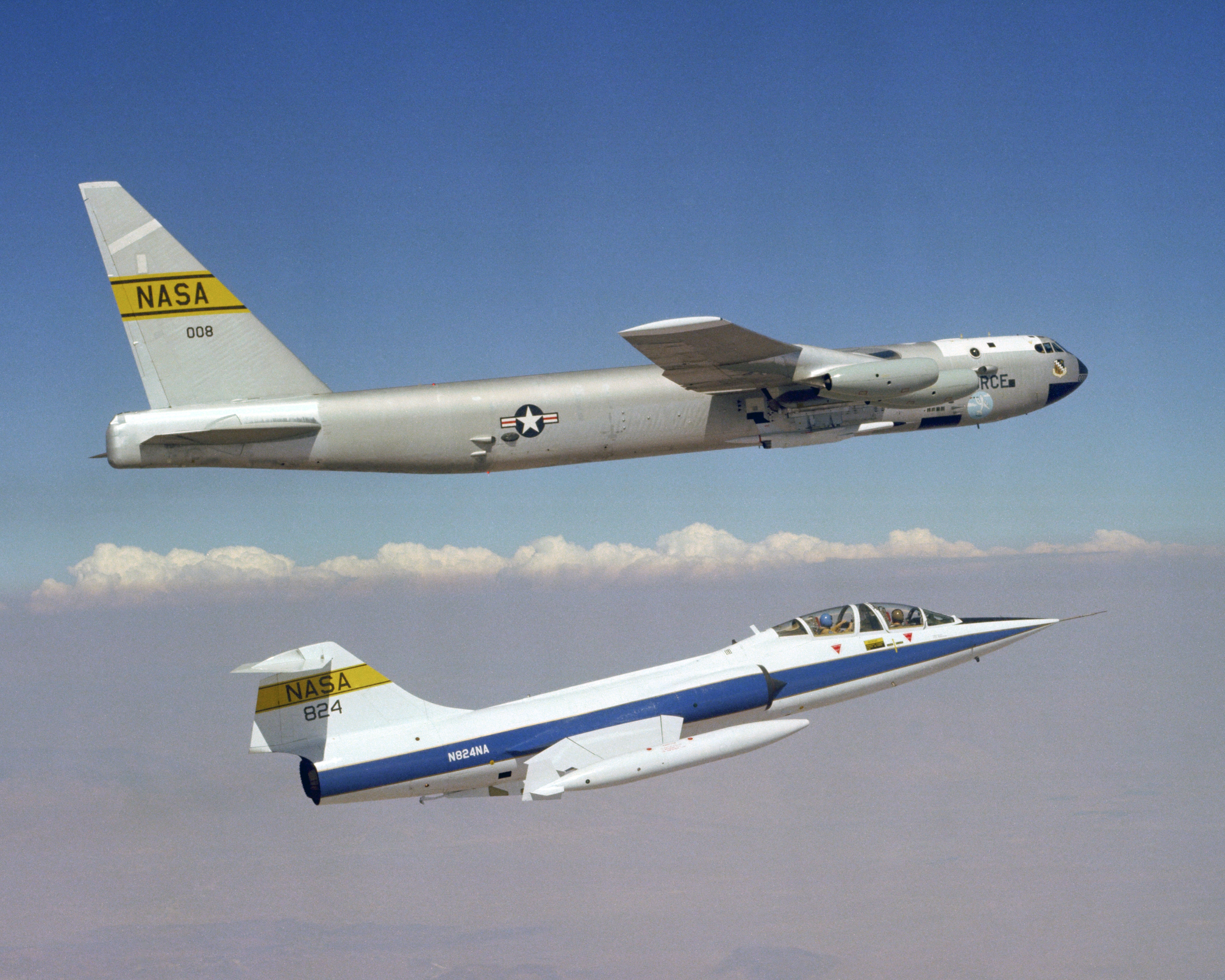 A NASA Lockheed TF-104G Starfighter (serial N824NA) flies chase on the NASA Boeing NB-52B during a DAST ARW-1 captive flight on 14 September 1979. The TF-104G was produced for Germany with the USAF s/n 63-3065, Luftwaffe serials 27+37. It was transferred to NASA in 1975 as N824NA. After retirement it went to the California Polytechnic Institute and is today on display at the Estrella Warbirds Museum, Paso Robles, California (USA). The Boeing RB-52B-10-BO Stratofortress (USAF s/n 52-008) was converted to the NB-52B and retired on 17 December 2004. since then it is on permanent display at the west gate of Edwards Air Force Base, California.